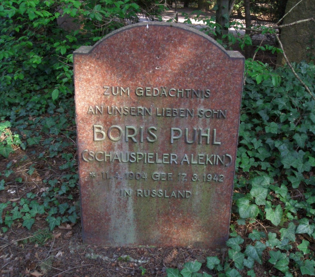 Memorial stone for Russian actor Alekin in Parkfriedhof Lichterfelde in Berlin, Germany.